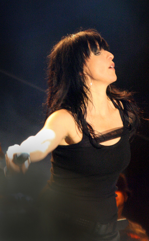 Nena on stage during a concert in Vienna